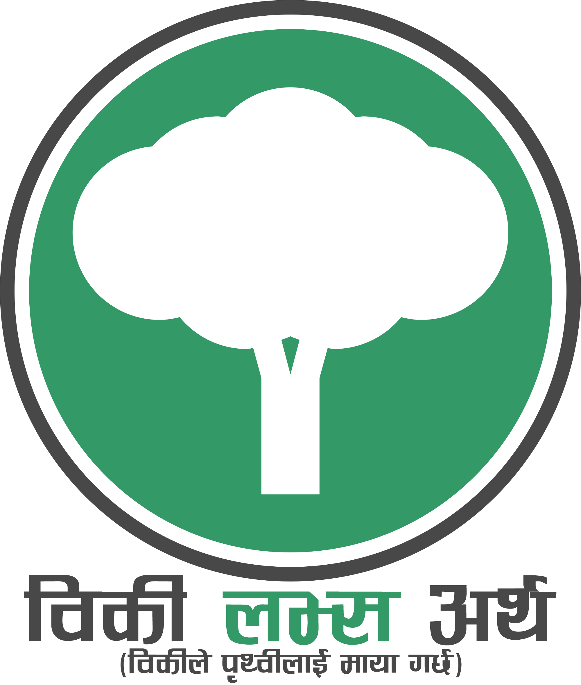 Logo For Wiki loves Earth Nepal